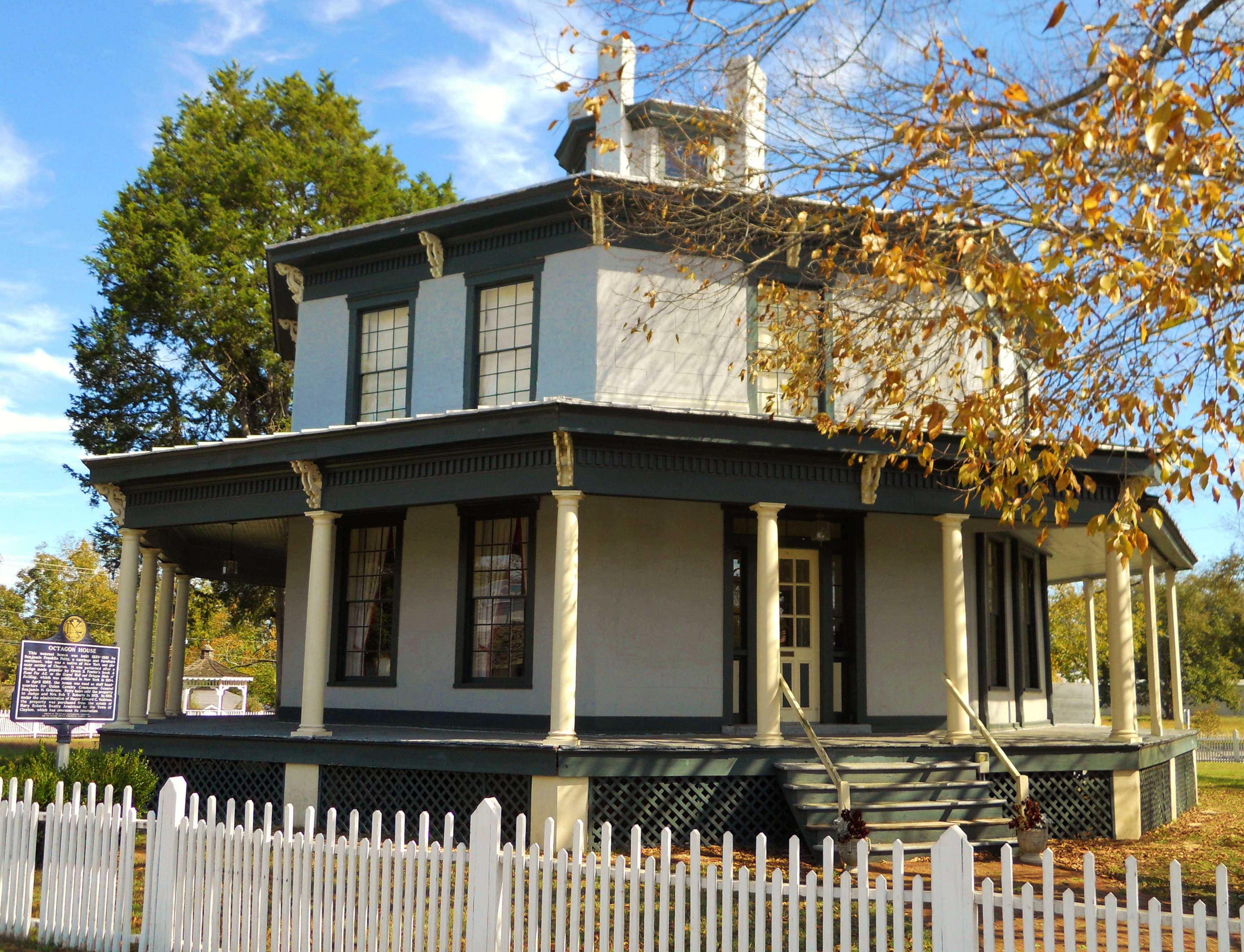 This is a photograph of the Petty-Roberts-Beatty Octagon House located in Clayton, Alabama.